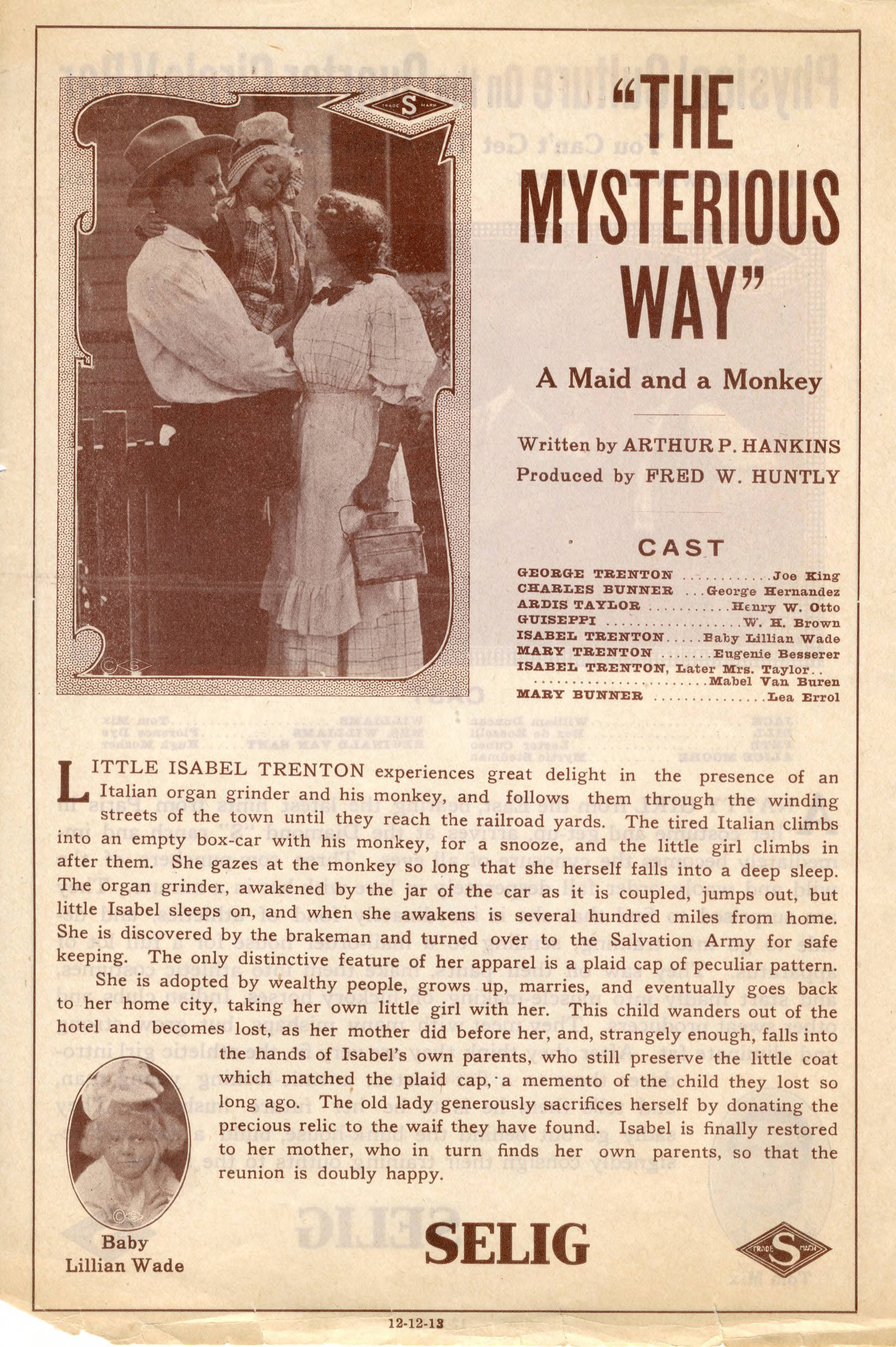 Release flier for THE MYSTERIOUS WAY, 1913